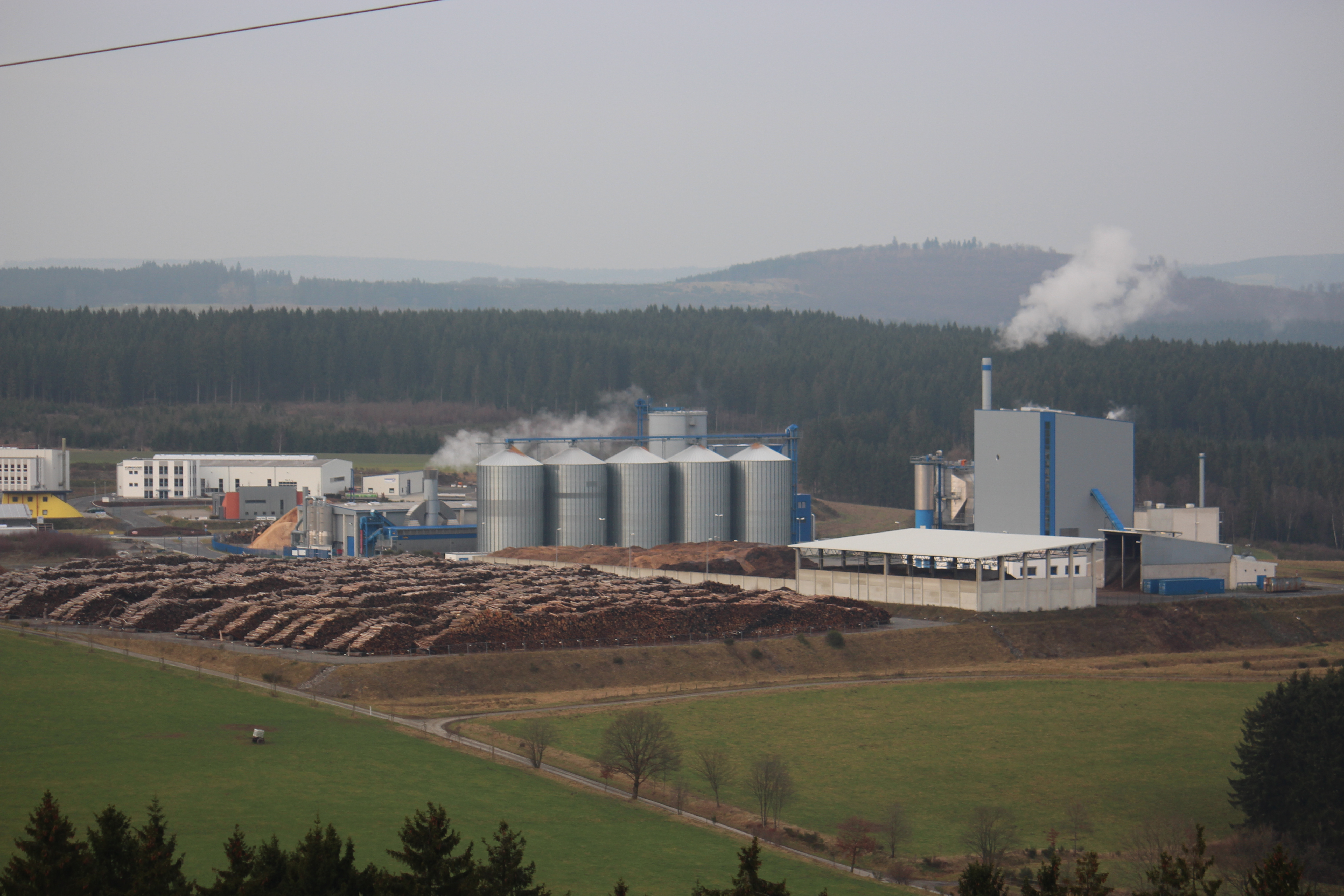 Biomass-fired power plant Wittgenstein, Germany.